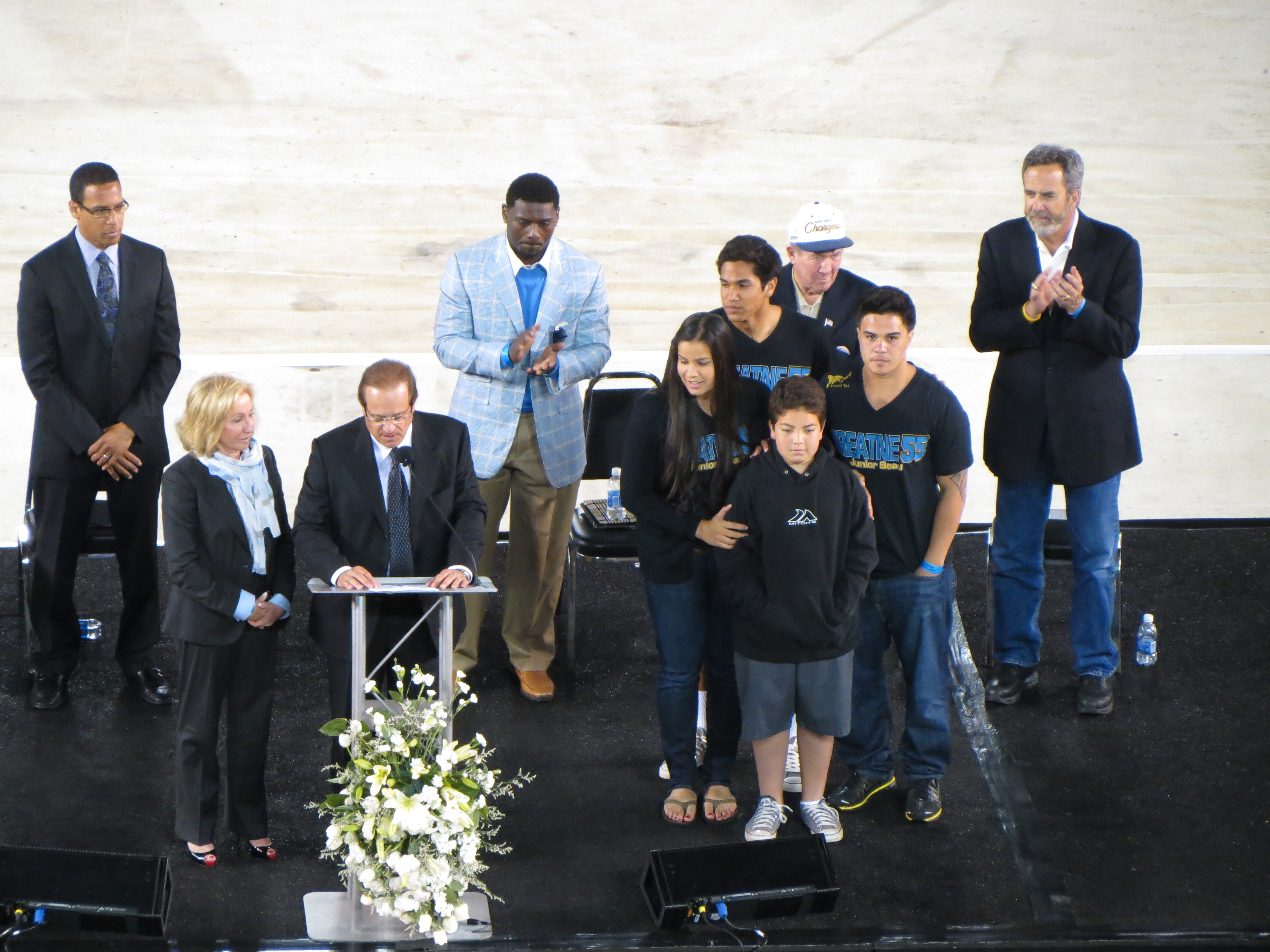 San Diego Chargers president Dean Spanos announces that Junior Seau's #55 is officially retired.